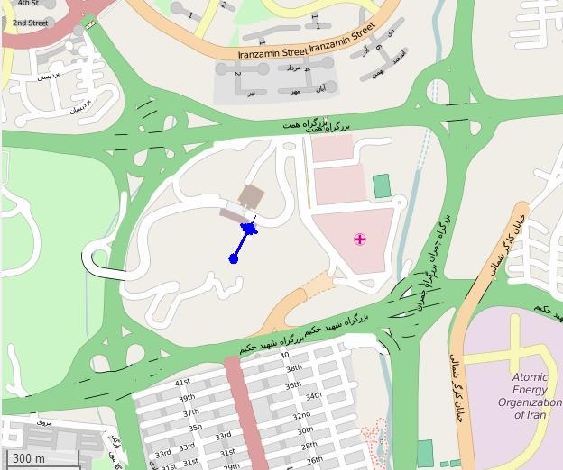 Milad Tower location on center of map in dark blue